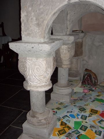 Saint Melangell's shrine, Pennant Melangell, Powys, Wales